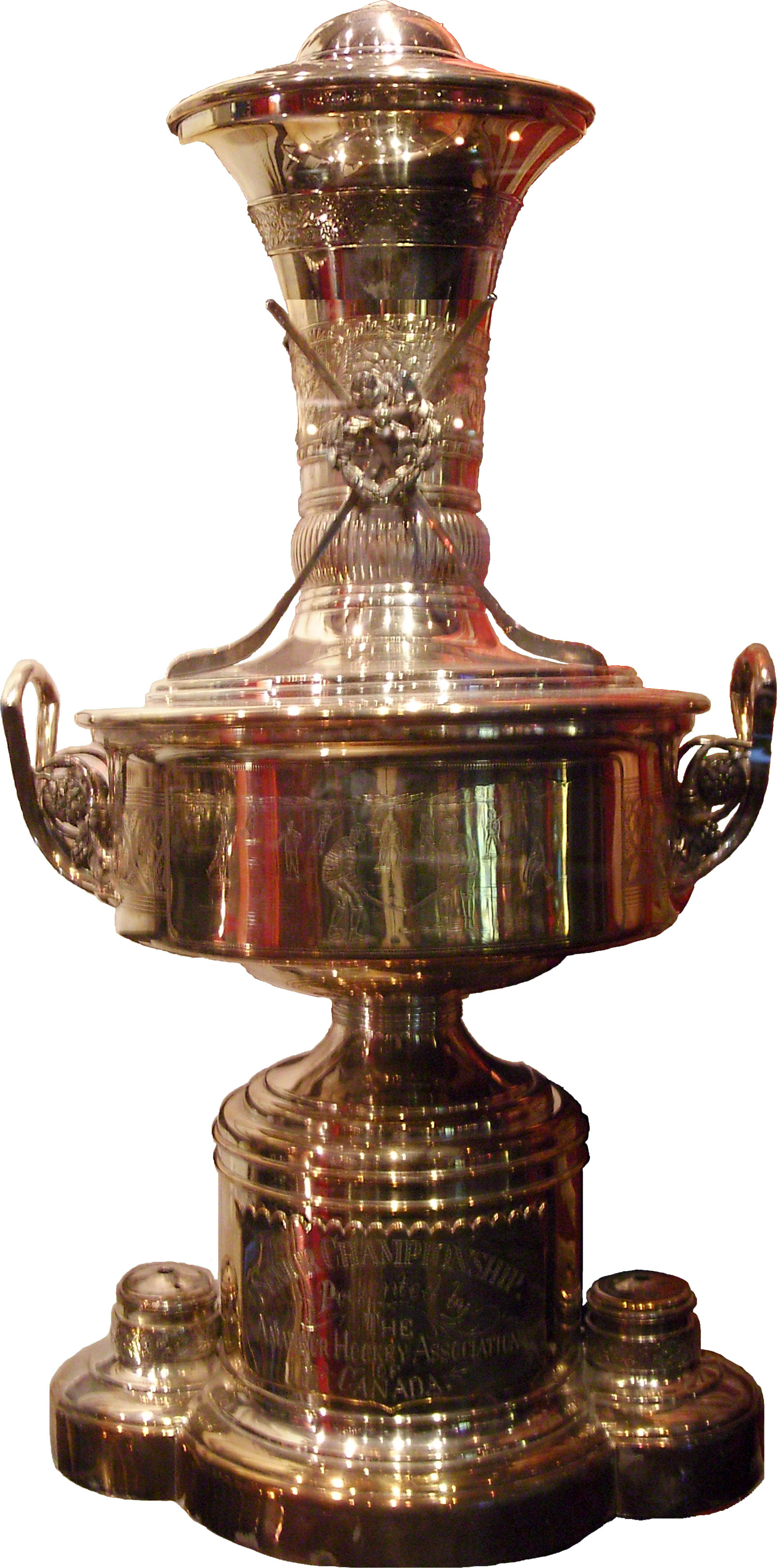 Championship trophy of the Amateur Hockey Association of Canada.